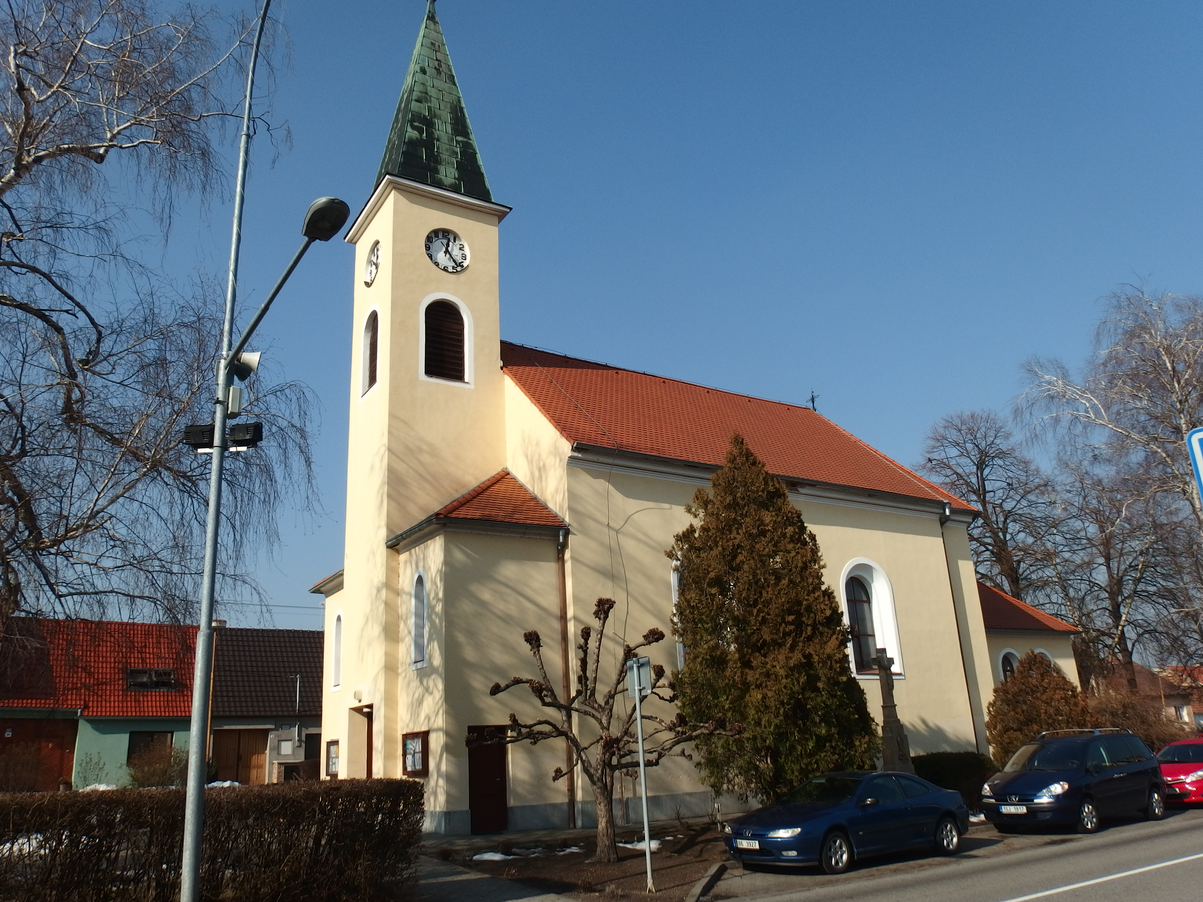 Lužice, Hodonín District, Czech Republic. Church of Saints Cyril and Methodius.